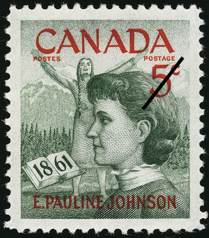 E. Pauline Johnson, 5 Cent Canadian Commemerative Stamp, Release Date 1961-03-10